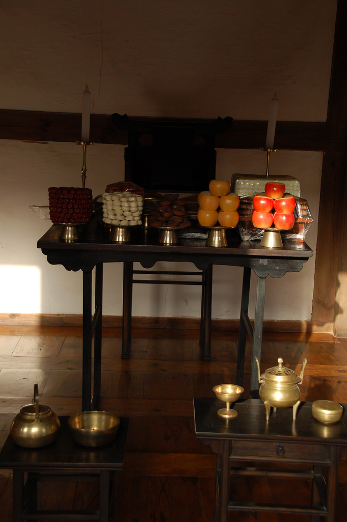 Jesa, ancestor worship in Korean tradition.